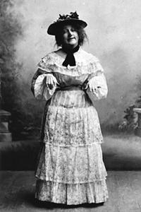 Anna Hofmann as Fia Jansson in Emil Norlander's variety Den förgyllda lergöken in Kristallsalongen 1900.